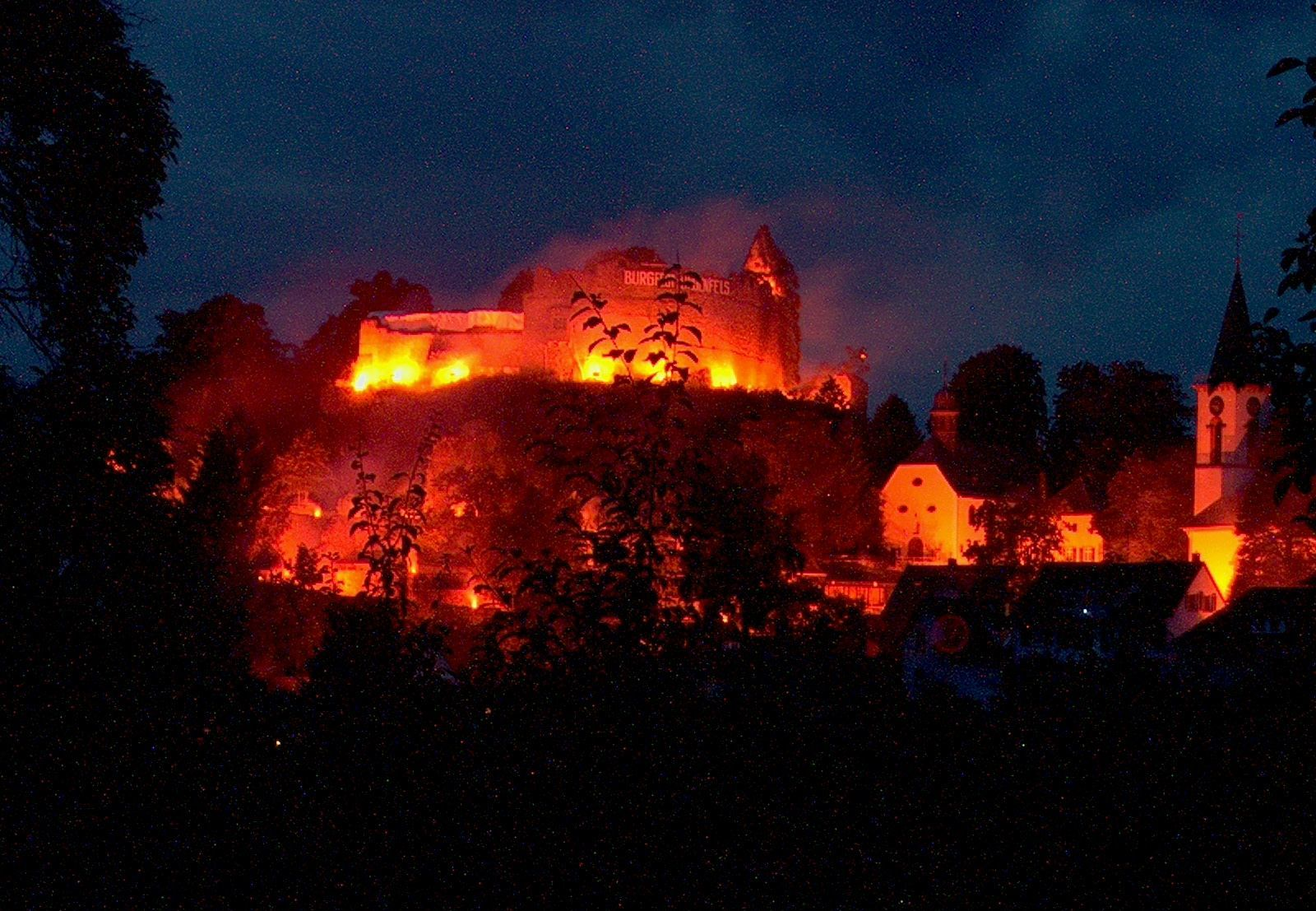 Castle floodlighting at Castle Festival on first weekend in August, Lindenfels, Hesse, Germany